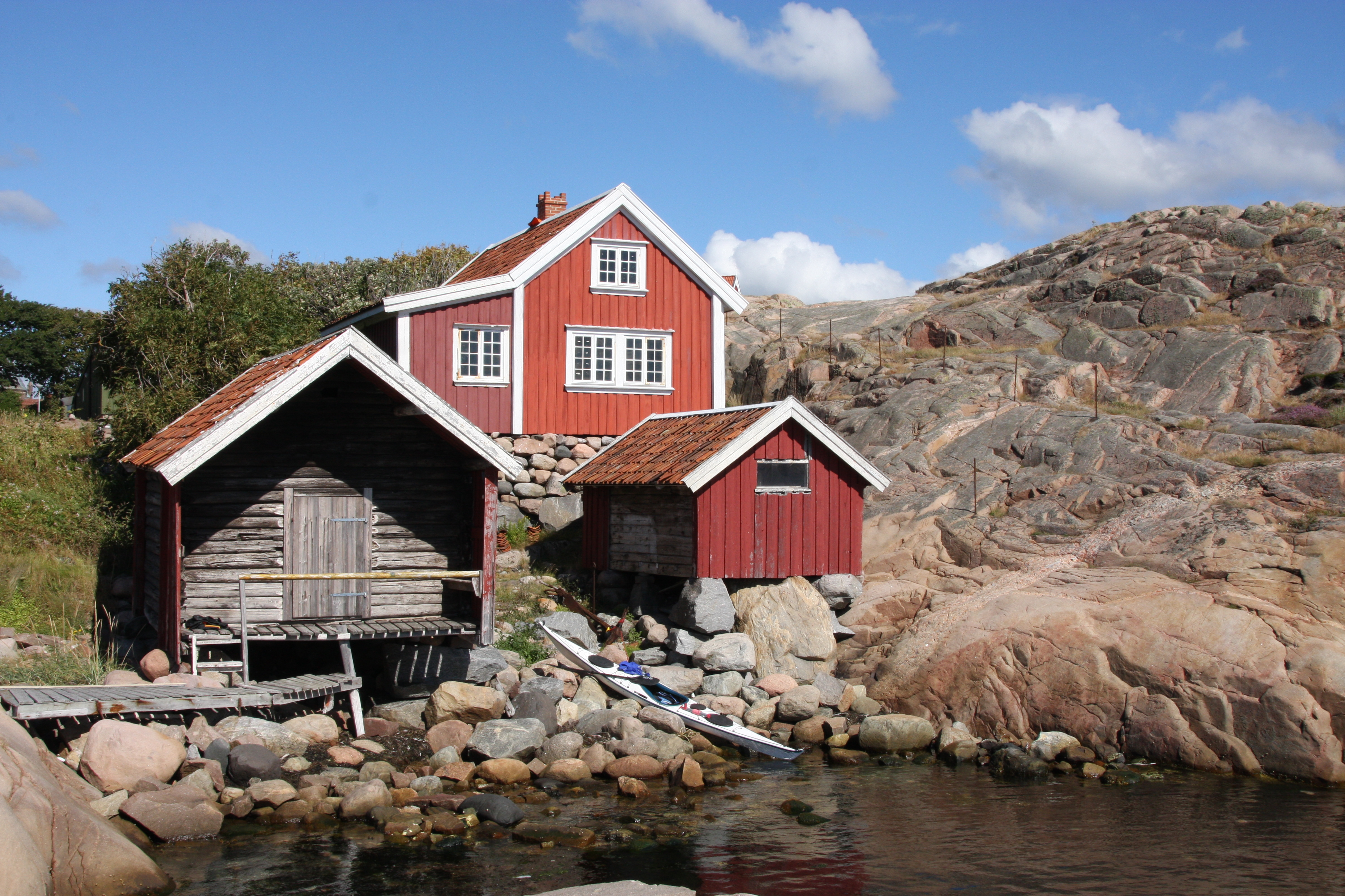 Image from Vikarvets Museum in Lysekil, Västra Götalands County, western Sweden. The image shows old fisherman's huts from Fiskebeckskil, a very old settlement on the oposite shore of the fjord.